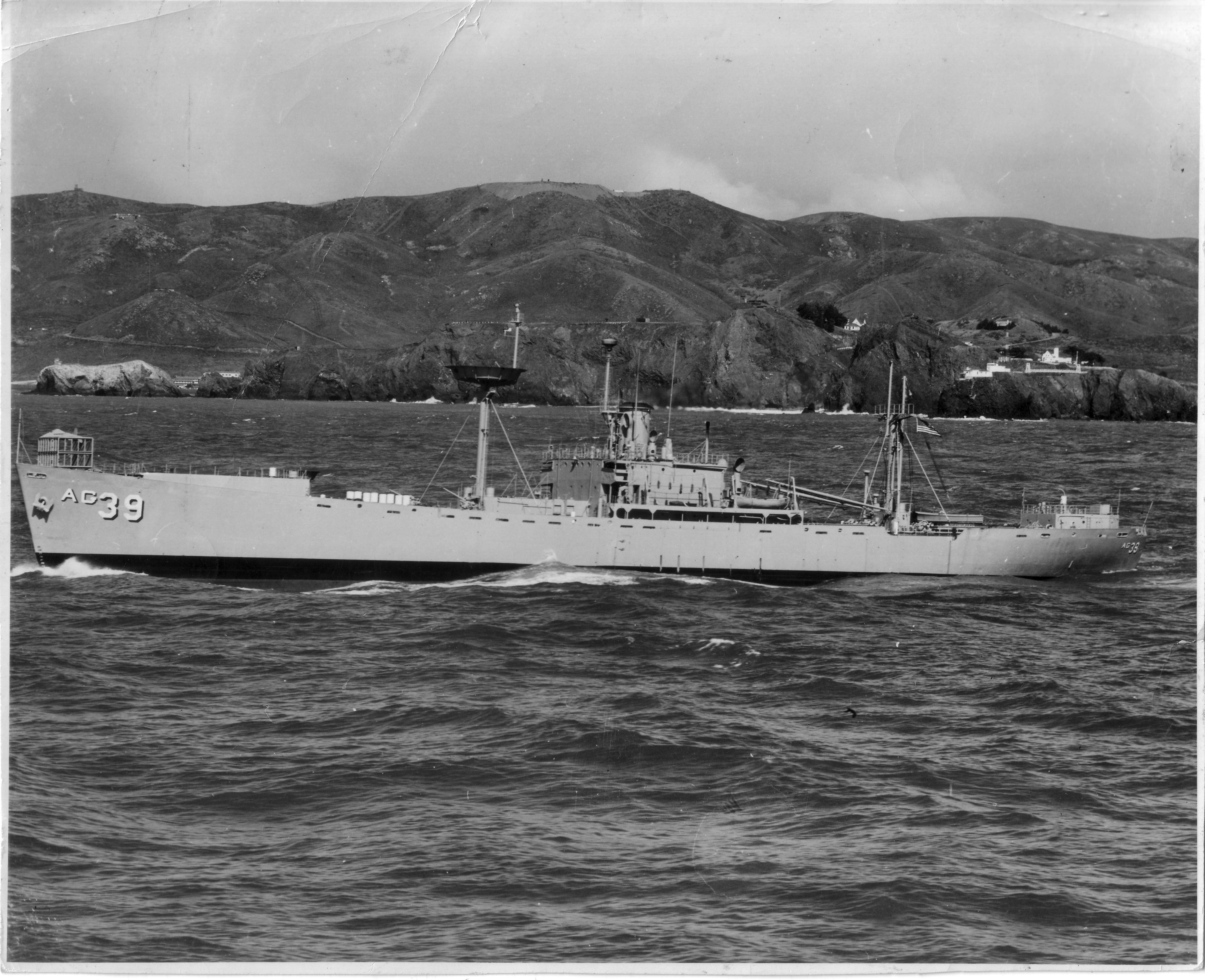 USS George Eastman Yag-39 equipped for nuclear testing